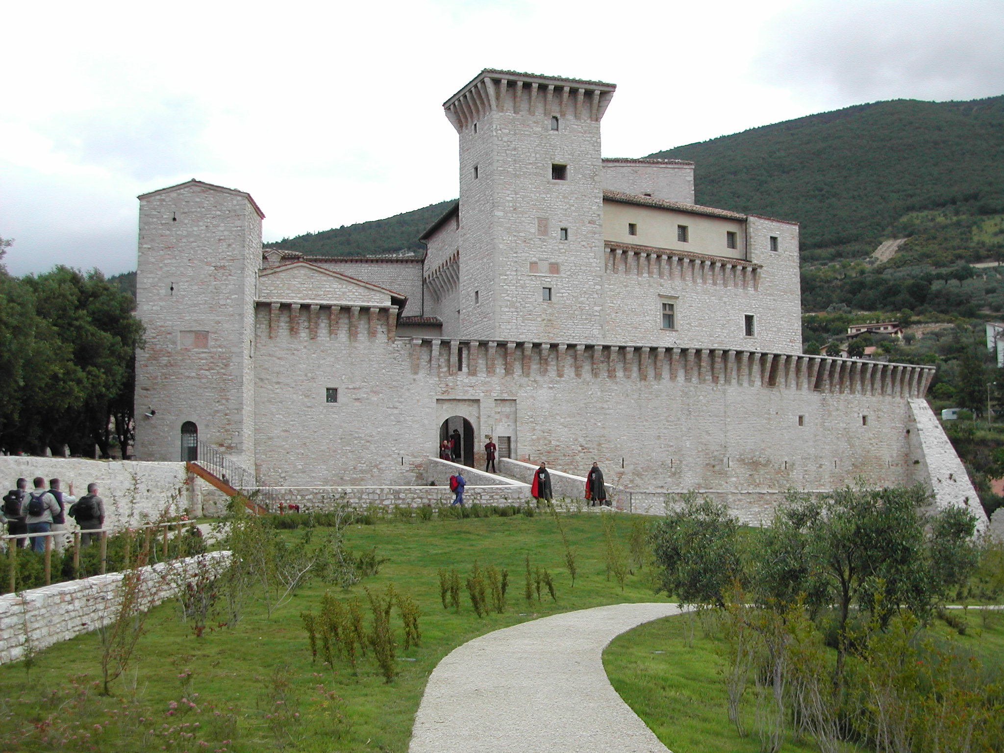 The Rocca Flea, castle situated in Umbria, central Italy